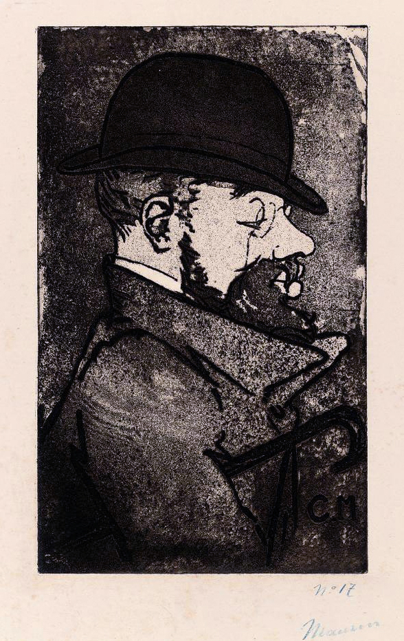 Portrait of Henri de Toulouse-Lautrec (Stein & Karshan 46) aquatint in brown-black, 1893, on cream wove paper, signed in blue pencil and numbered 17, from the edition of 100, published by L'Estampe Originale, Paris, with their blindstamp, with margins P. 226 x 137 mm., S. 407 x 360 mm.